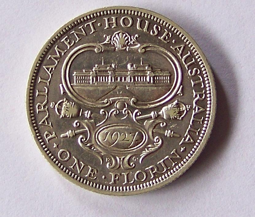 Reverse of a 1927 Australian florin, depicting Old Parliament House, Canberra